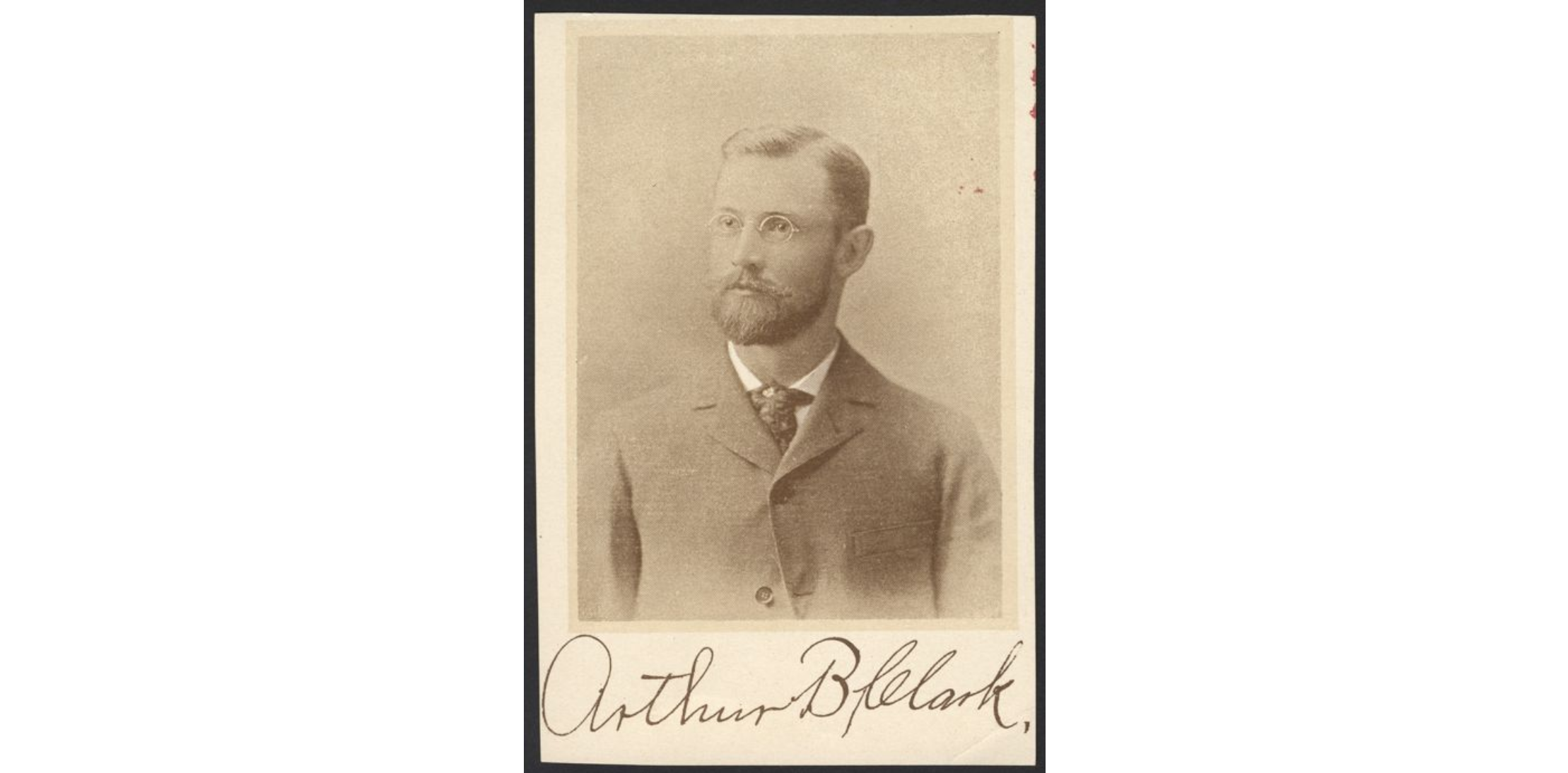 Arthur Bridgman Clark, Stanford University faculty, circa. 1893